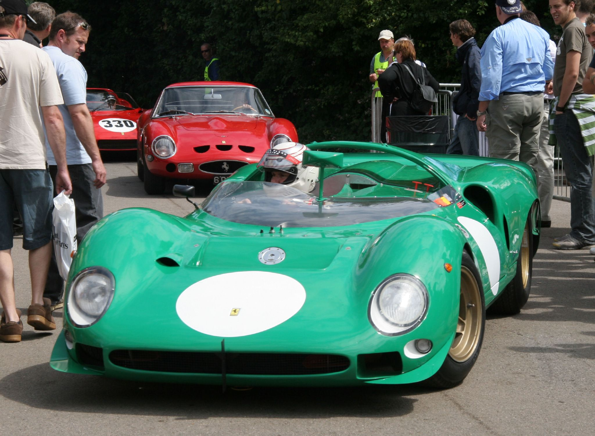 1964 Ferrari 330 P2 at the 2006 Goodwood Festival of Speed